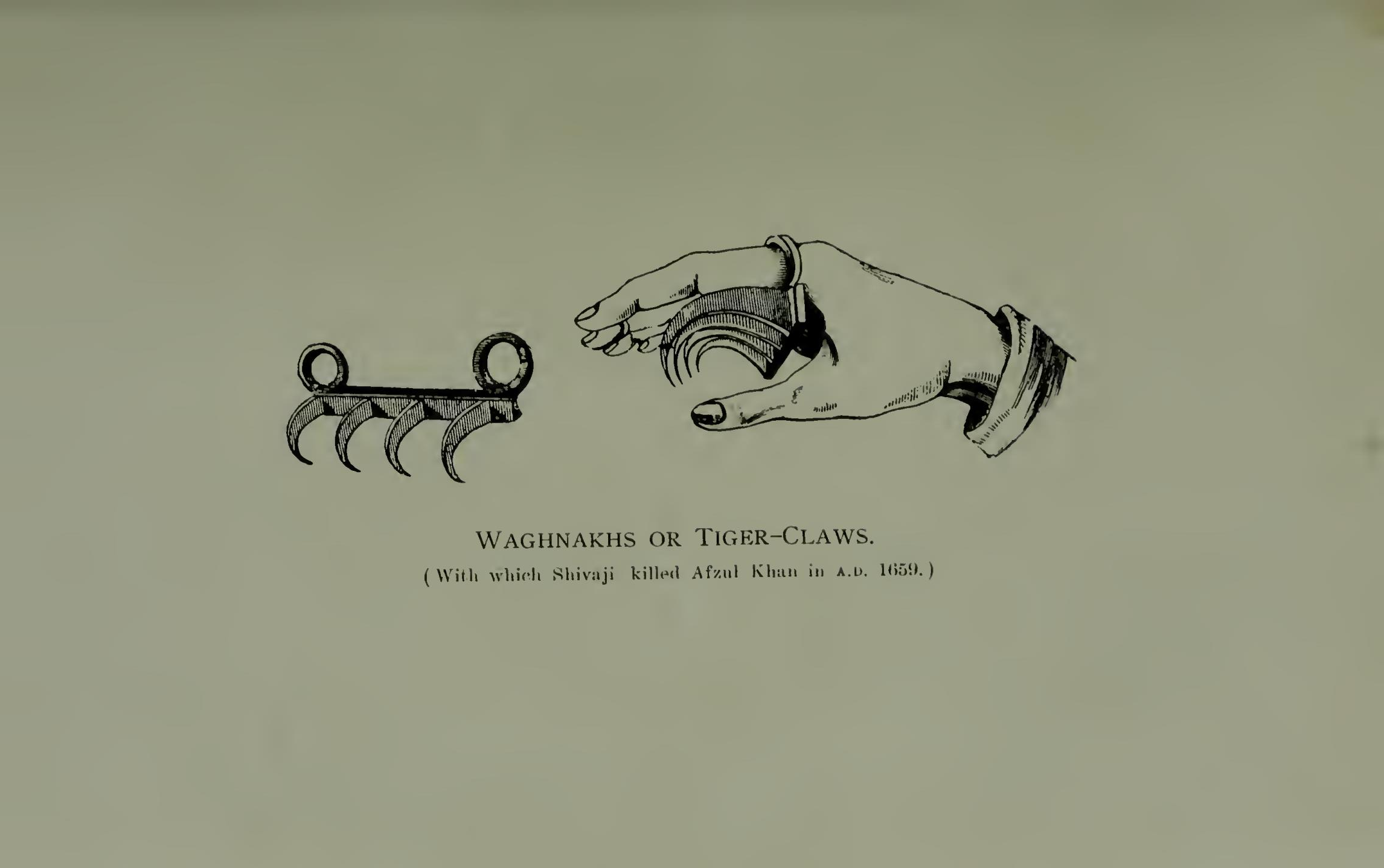 WaghNakh weapon